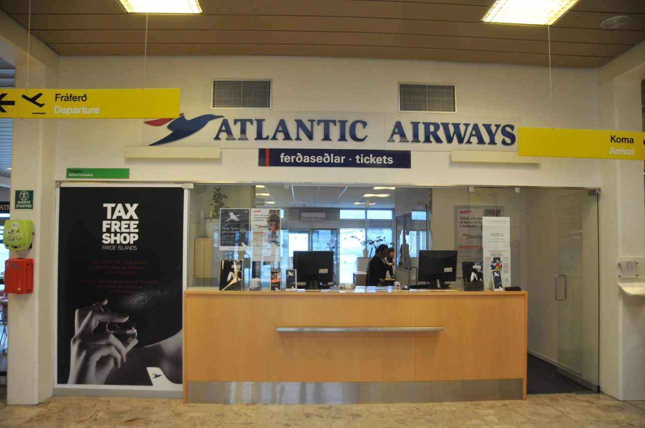 Vágar airport, Faroe Islands